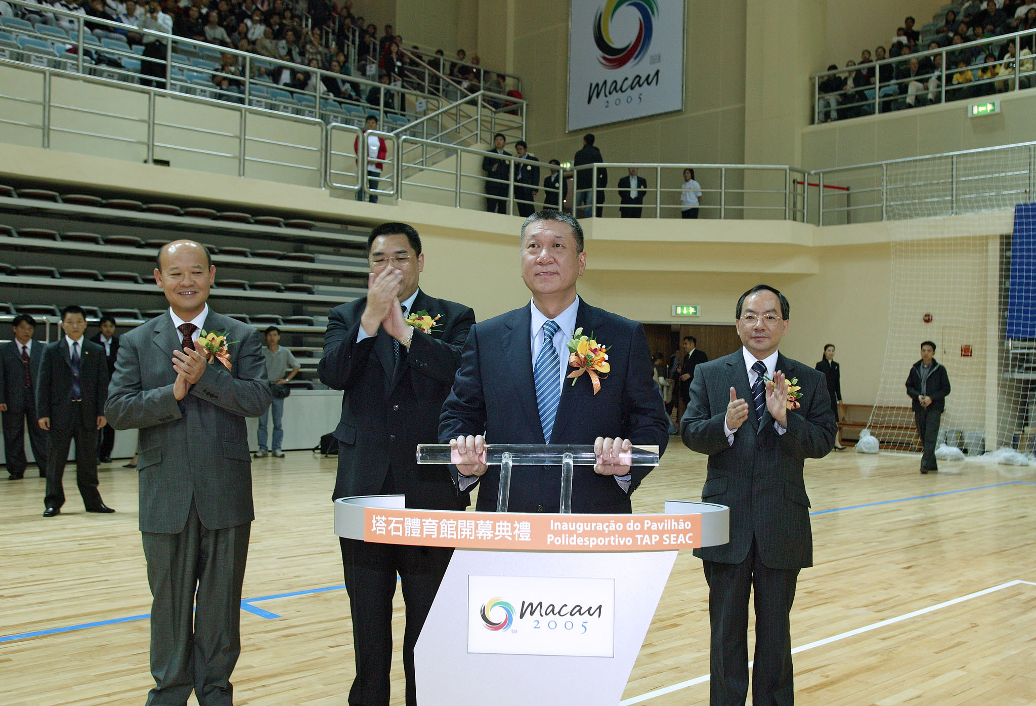 Edmund Ho, Chief Executive of Macau, host for the Opening Ceremony of the Pavilhão Polidesportivo Tap Seac